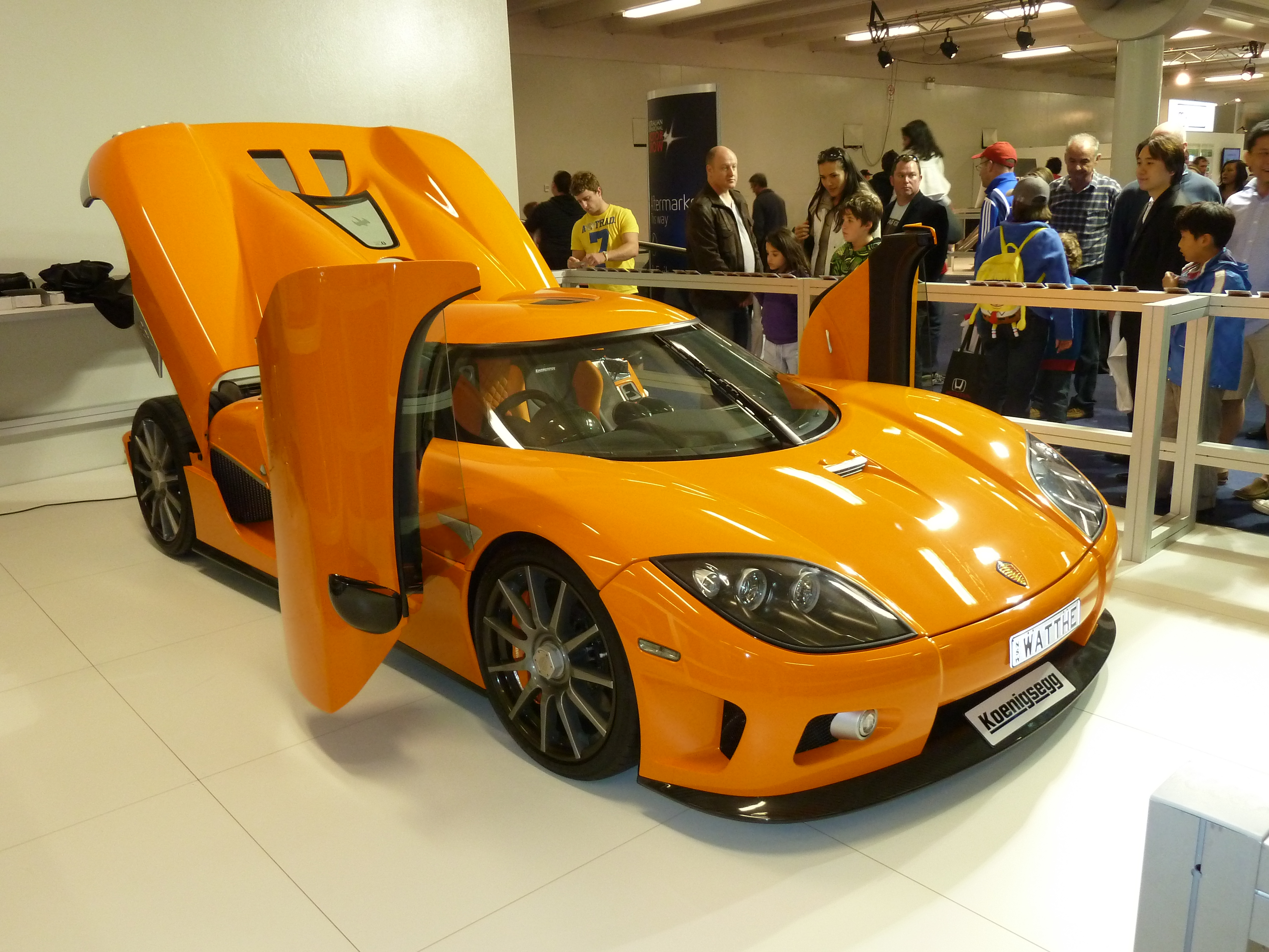 Koenigsegg CCX roadster. Photographed at the 2010 Australian International Motor Show, Sydney, New South Wales, Australia.